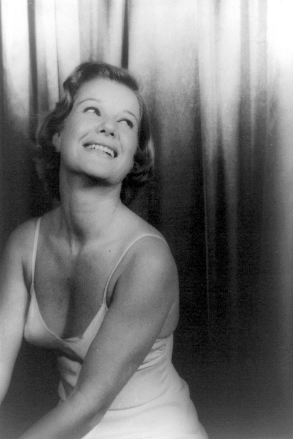 Portrait photograph of Barbara Bel Geddes as Maggie in the original Broadway production of Cat on a Hot Tin Roof